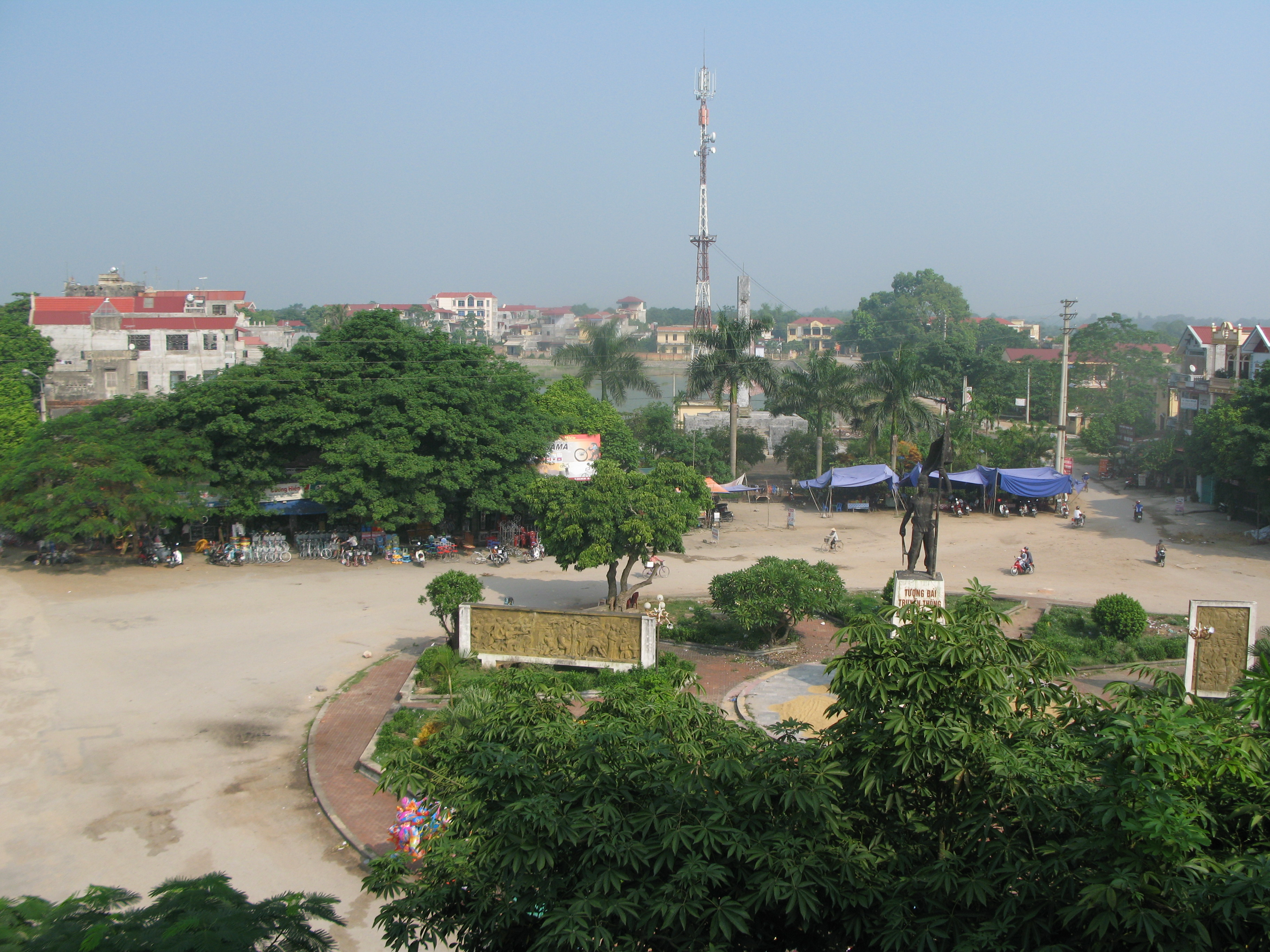 Park in the middle of Nga Sau, Thang Town, Hiep Hoa, Bac Giang